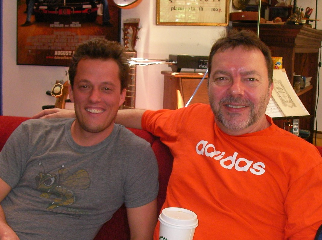 Nathan Barr and Alan Ball working on True Blood season 2